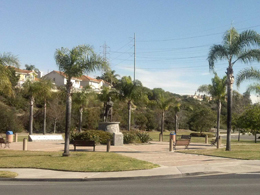 View of Discovery Park in Chula Vista, California